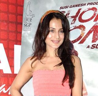 Ameesha Patel promoting 'Shortcut Romeo'